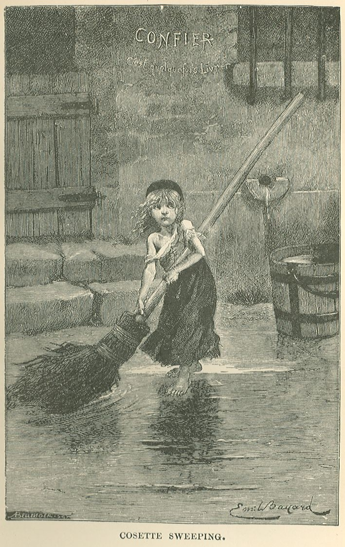 Young Cosette sweeping: 1886 engraving for Victor Hugo's Les Miserables. French illustrator Émile Bayard drew the sketch of Cosette for the first edition, and this engraving was prepared for an 1886 edition. The image has become emblematic of the entire story, being used in promotional art for various versions of the musical. The illustration's caption, CONFIER, c'est quelquefois livrer, is the title of Book IV of Volume I. It is translated to English as "To Entrust is Sometimes to Abandon".